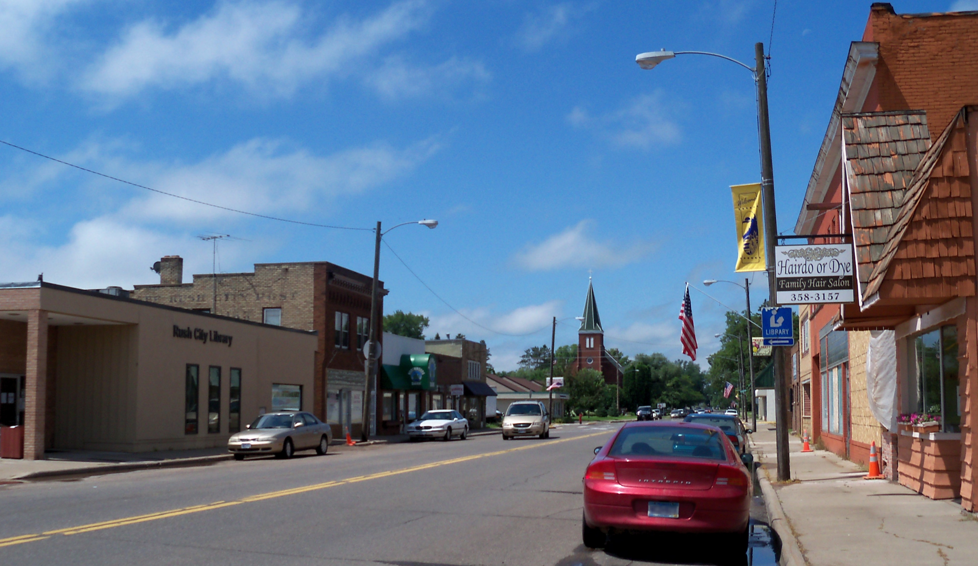 Street in Rush City, Minnesota, USA.